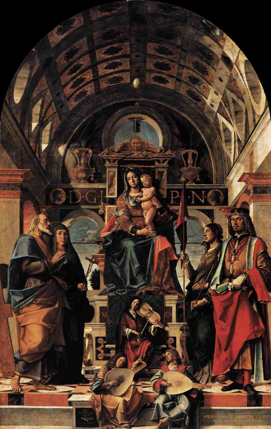 Madonna and Child Enthroned with Saints